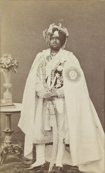 Full-length standing carte-de-visite portrait of Mahendra Singh, Maharaja of Patiala (1852-1876) wearing the robes and order of the Star of India